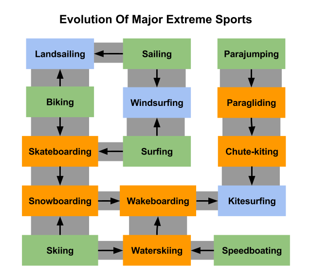 A schematic depiction of the evolution of some major extreme sports